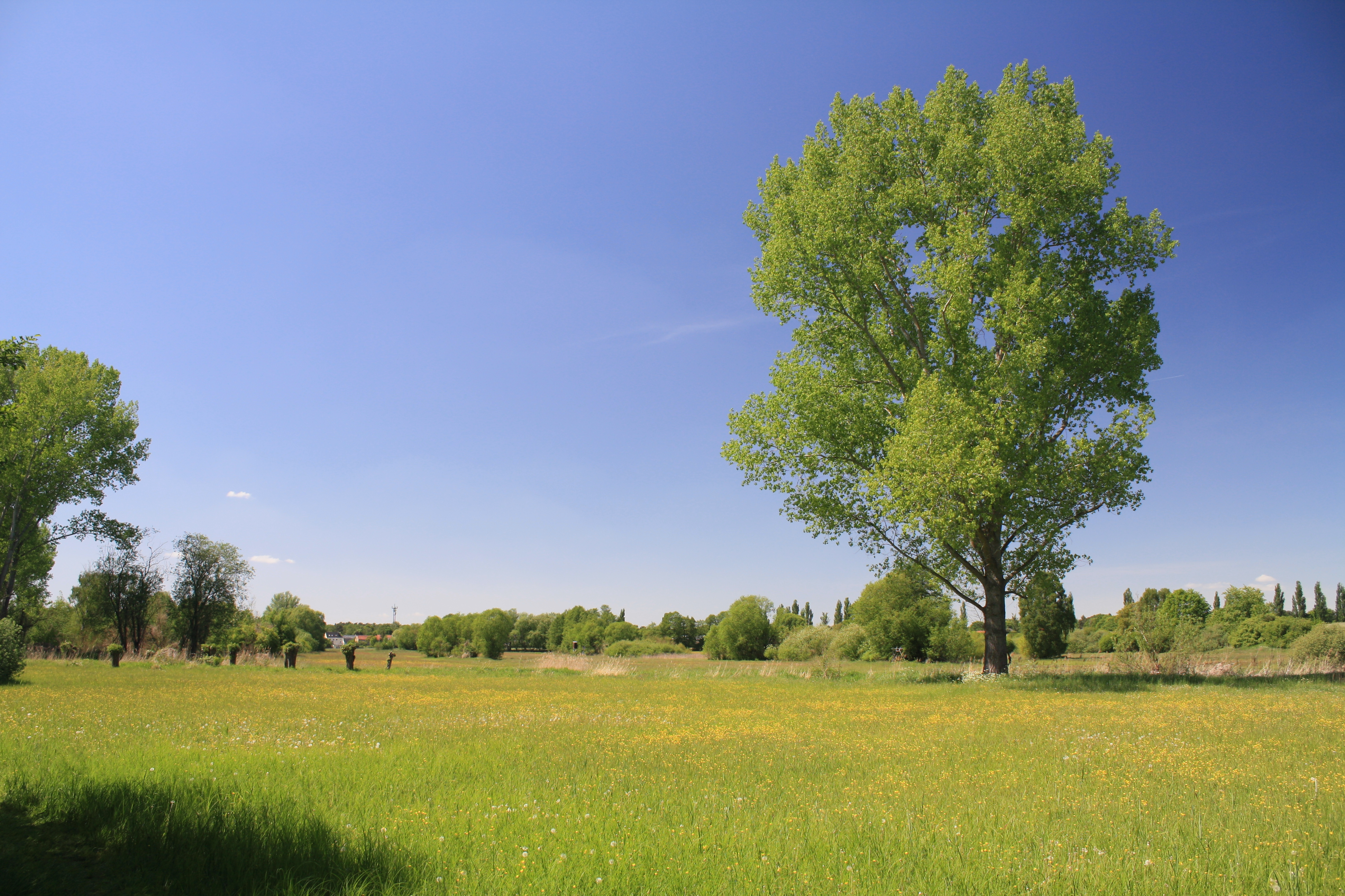 Nature reserve Kalktuffgelände am Tegeler Fließ